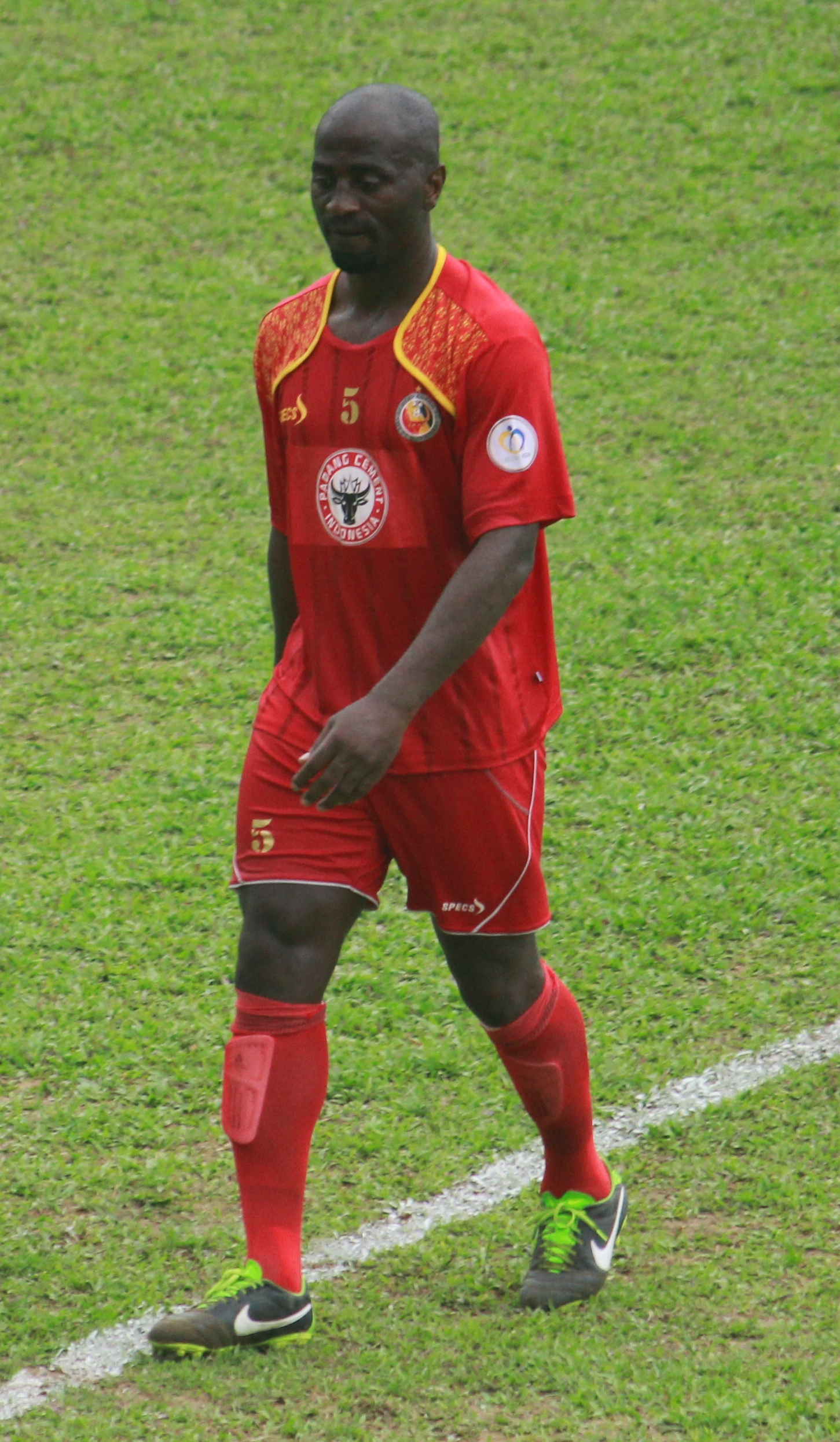 David Pagbe playing for Semen Padang against Sime Darby, 30 December 2013 in Padang.